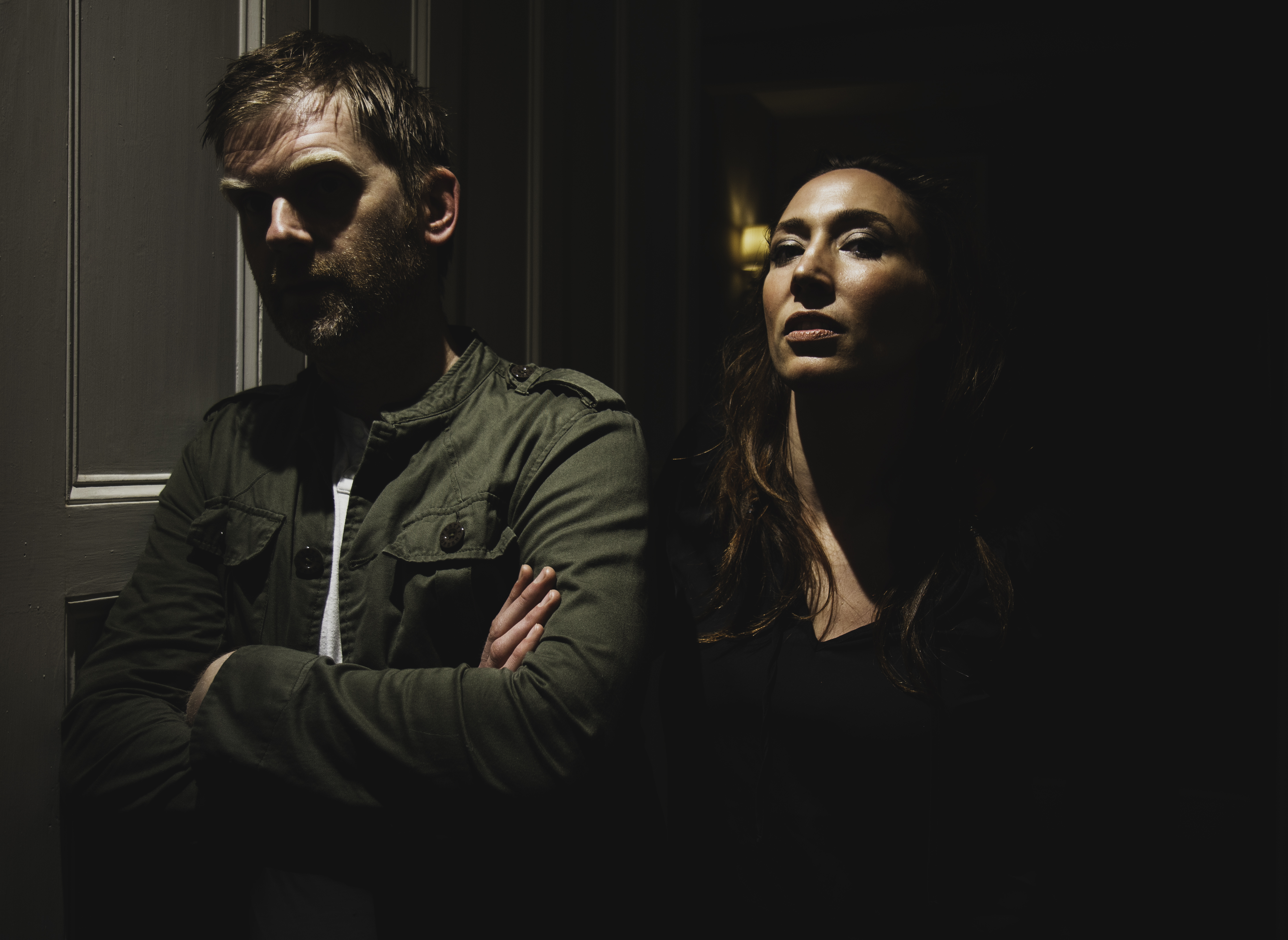 Hybrid press Shot 2018